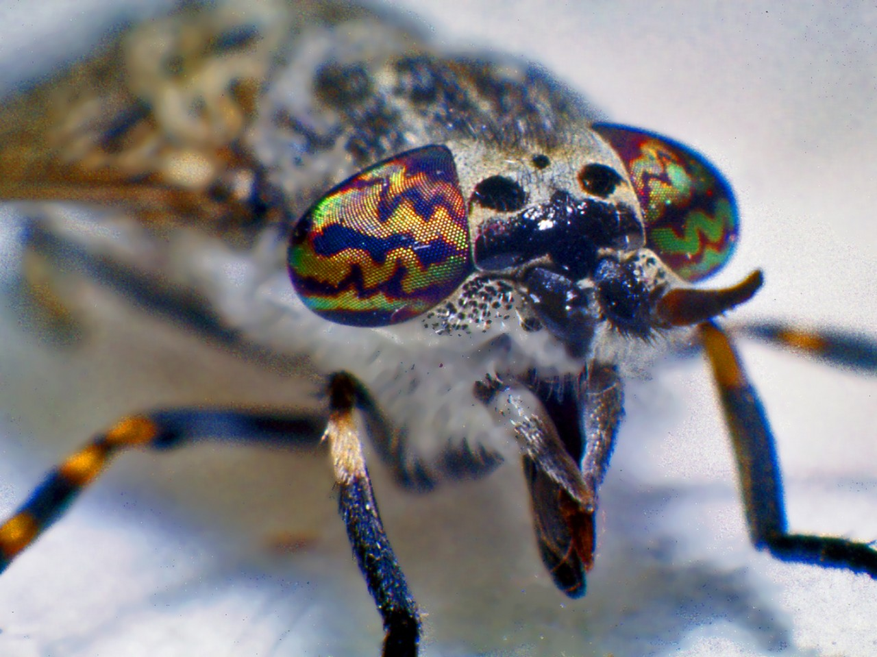 H. pluvialis